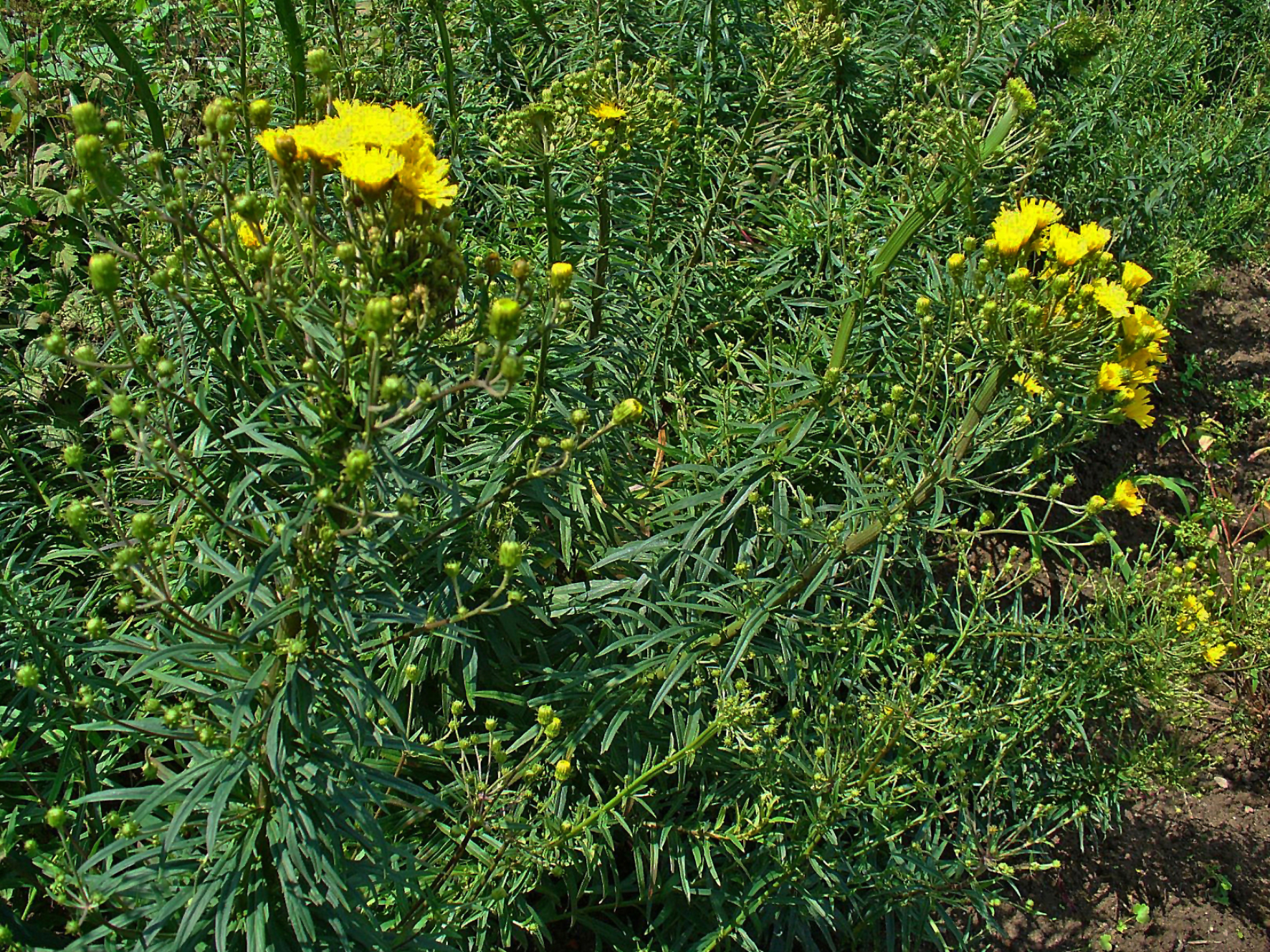 Hieracium umbellatum, Asteraceae, Narrowleaf Hawkweed, habitus. The plant is used in homeopathy as remedy: Hieracium umbellatum (Hier-u.)